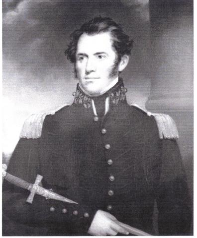 John McNeil, Jr., US Army Brevet Brigadier General and brother-in-law of President Franklin Pierce